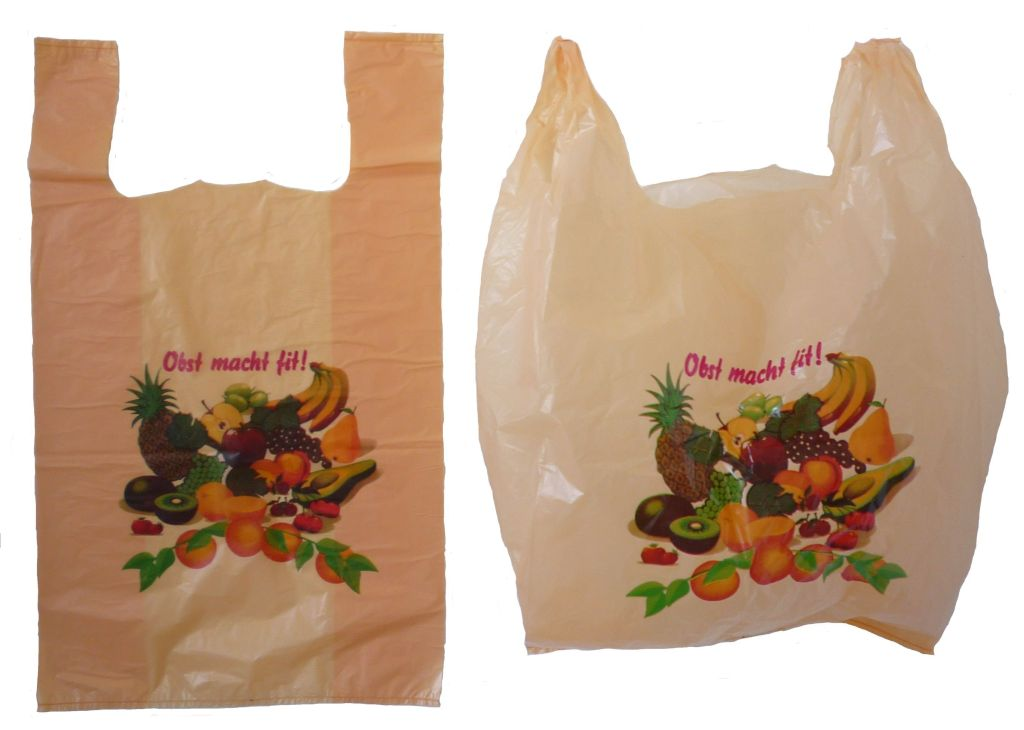 Plastic bag for shopping. The German text says "Fruit makes you fit!"